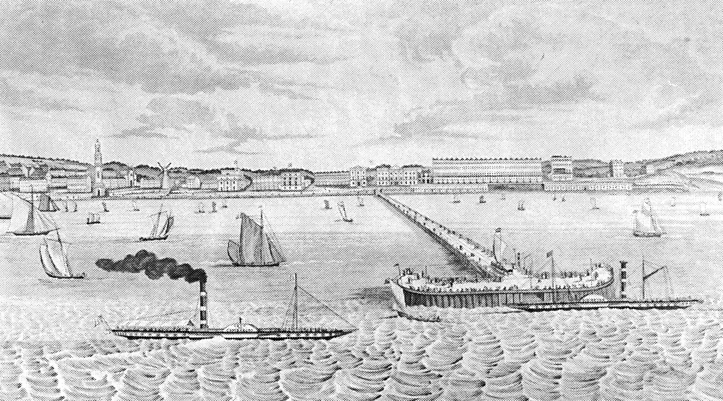 19th century image of Herne Bay, created just after 1837, showing the first wooden Herne Bay pier, built 1832 by Thomas Rhodes, assistant to Thomas Telford. In the background is the Clock Tower, built 1837.